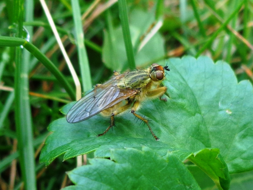 Scatophaga stercoraria. Female. Faund ir Bolderaja city, Latvija.